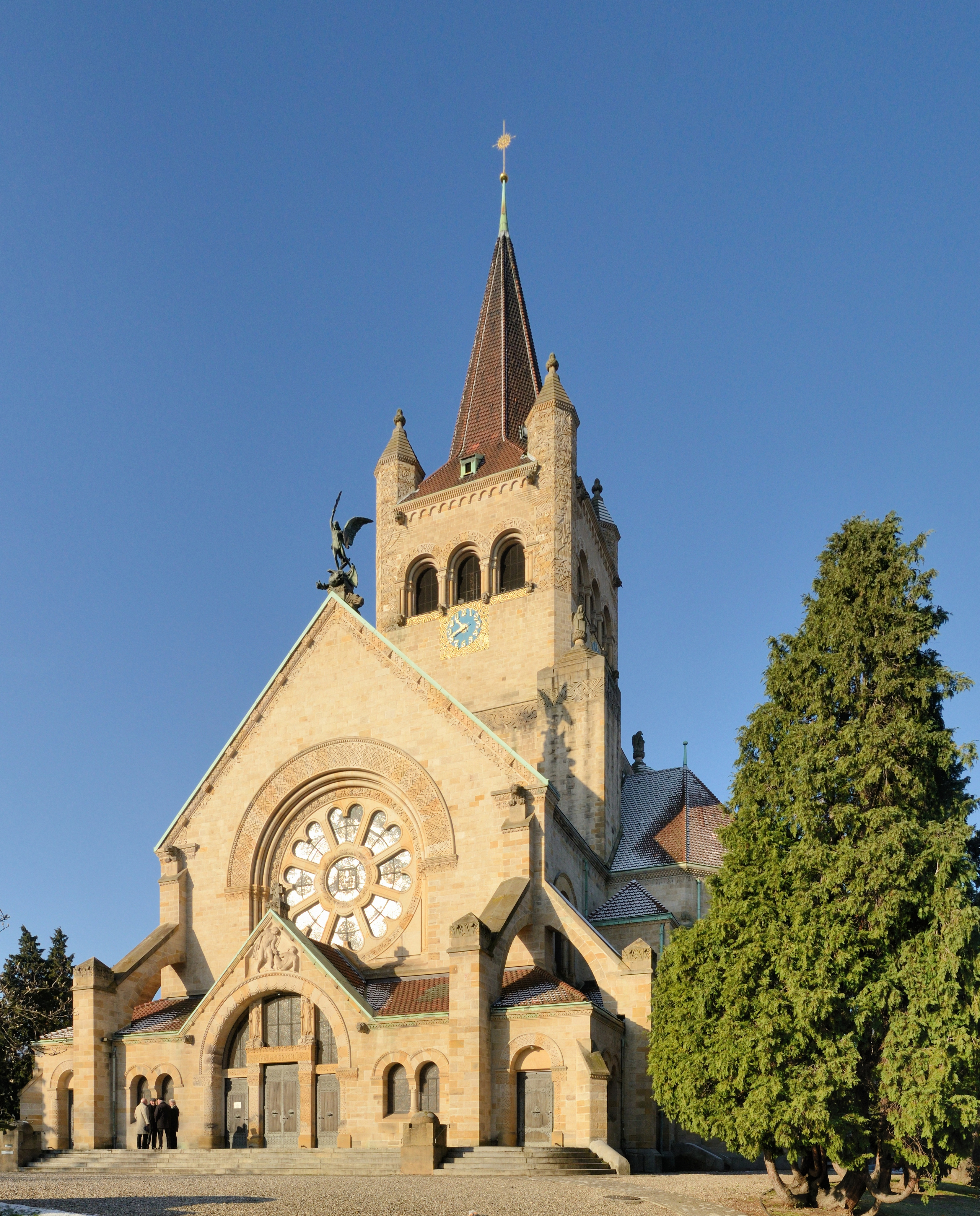 Basel: Paulus Church